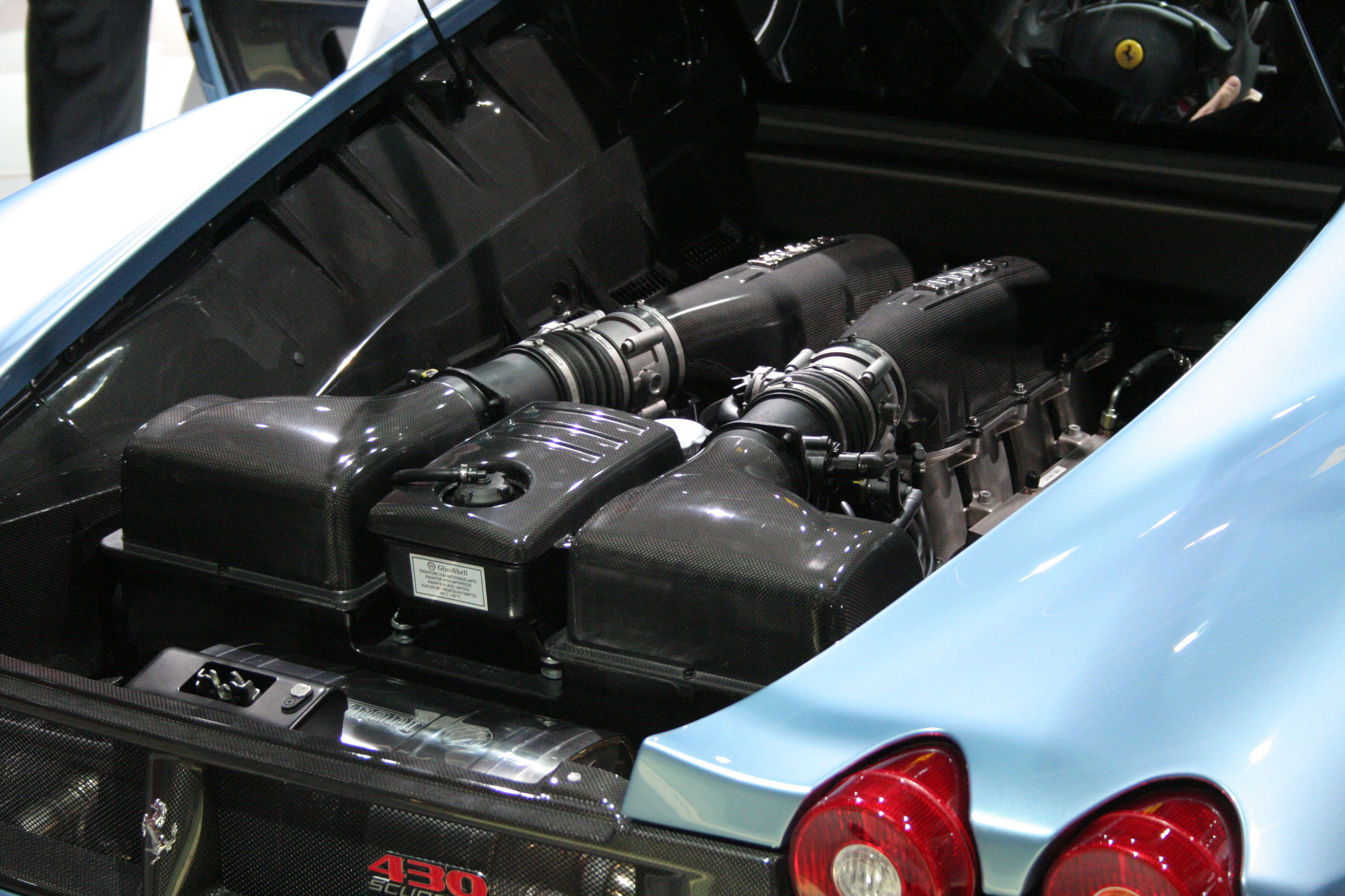 Image from IAA 2007 in Frankfurt am Main